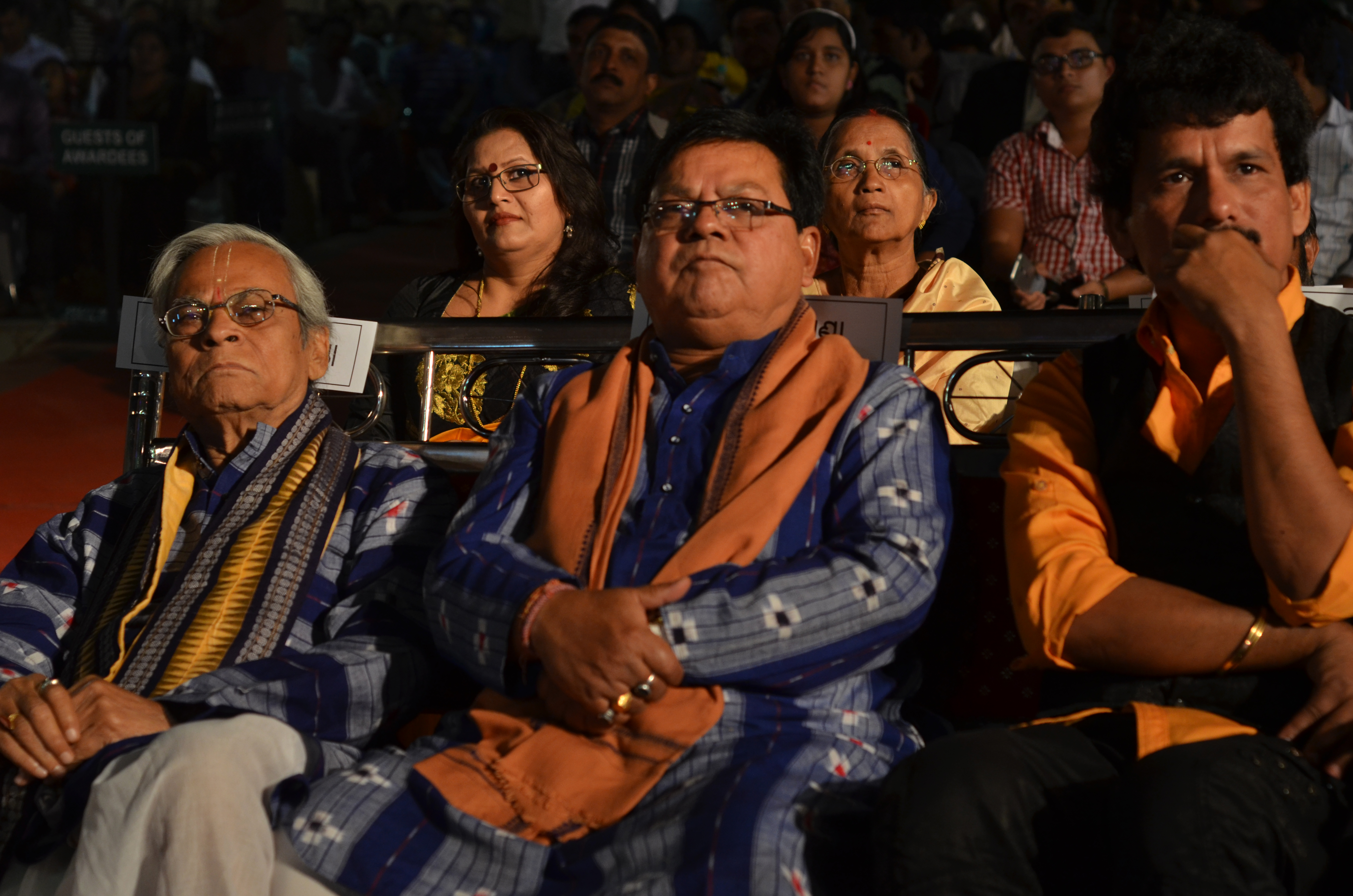 Odia film actor Atal Bihari Panda, author Iti Samanta, actor Papu Pom Pom during State Film Awards 2014 at Utkal Mandap, Bhubaneswar, Odisha.